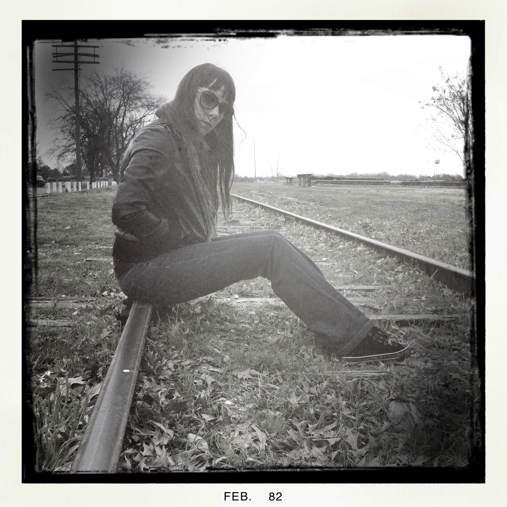 Heidi Solheim på sporet i Tutwiler, Mississippi